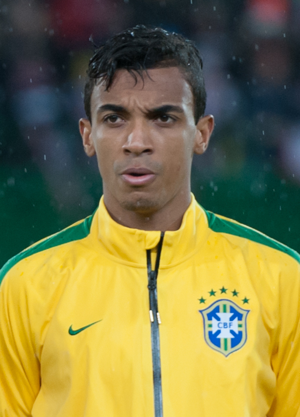 International Friendly Austria - Brazil November 18, 2014: Luiz Gustavo